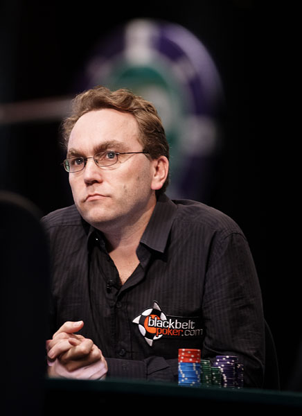 Neil Channing at the feature table during Irish Poker Open 2010, wearing a patch with the logo of Black Belt Poker, his own company.